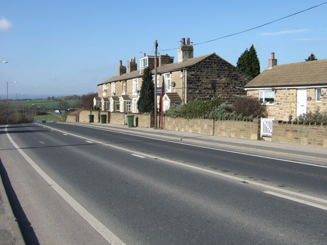 Pineapple Cottages, Warmfield Opposite the Pineapple Inn on the A655 at Warmfield.